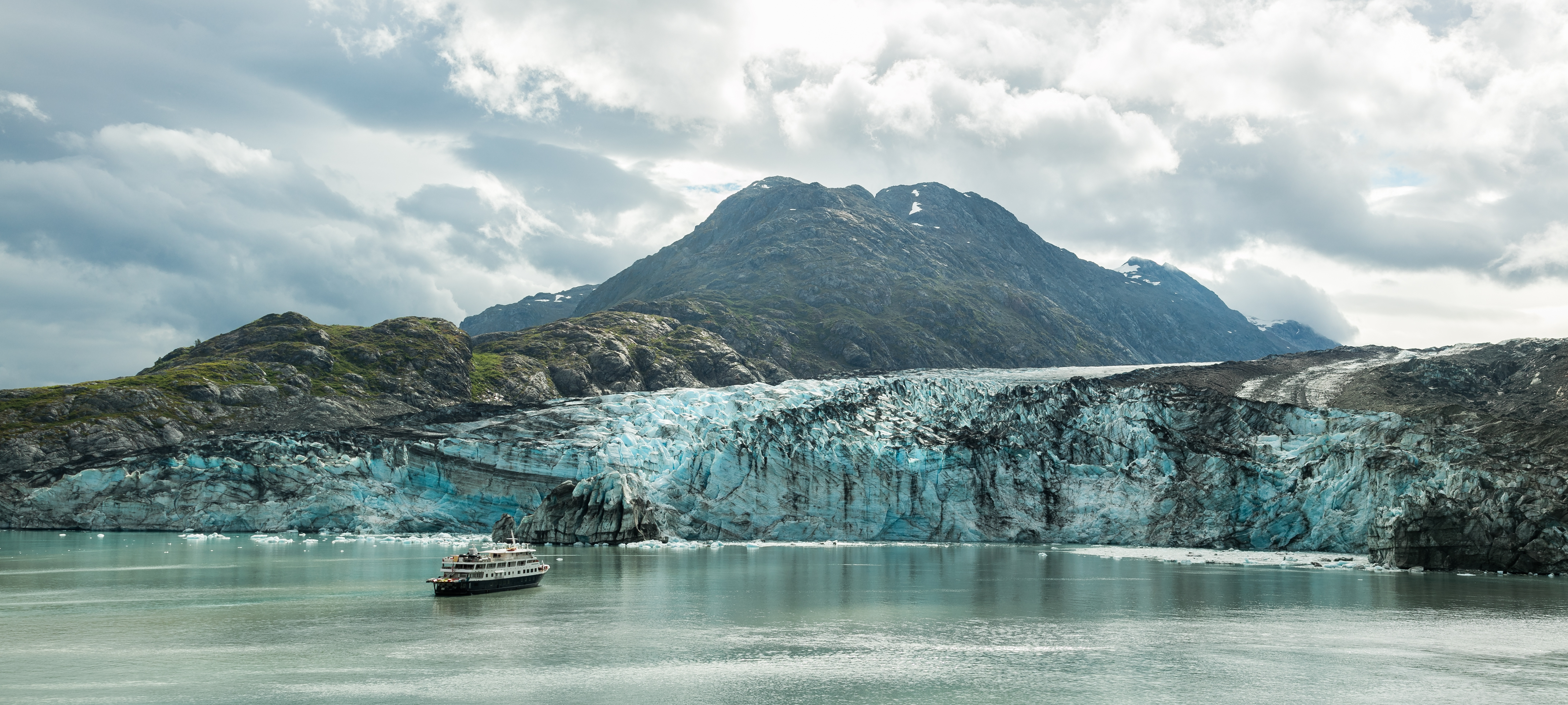 Lamplugh Glacier, Glacier Bay National Park, Alaska, United States